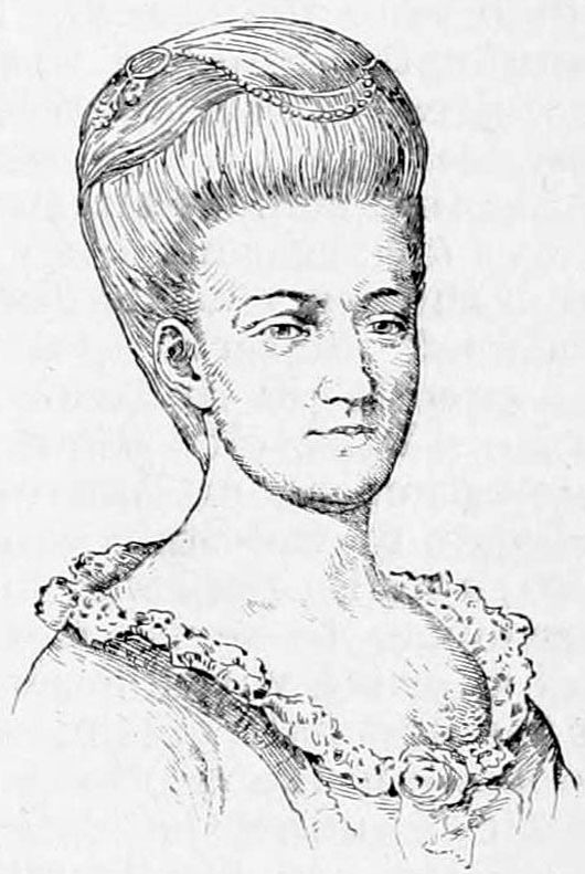 Portrait of Catherine (Alexander) Duer, wife of William Duer (1747-1799)